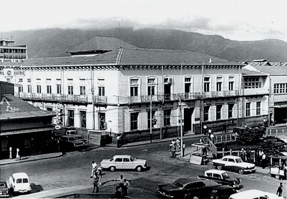 Old Banco de Costa Rica Building